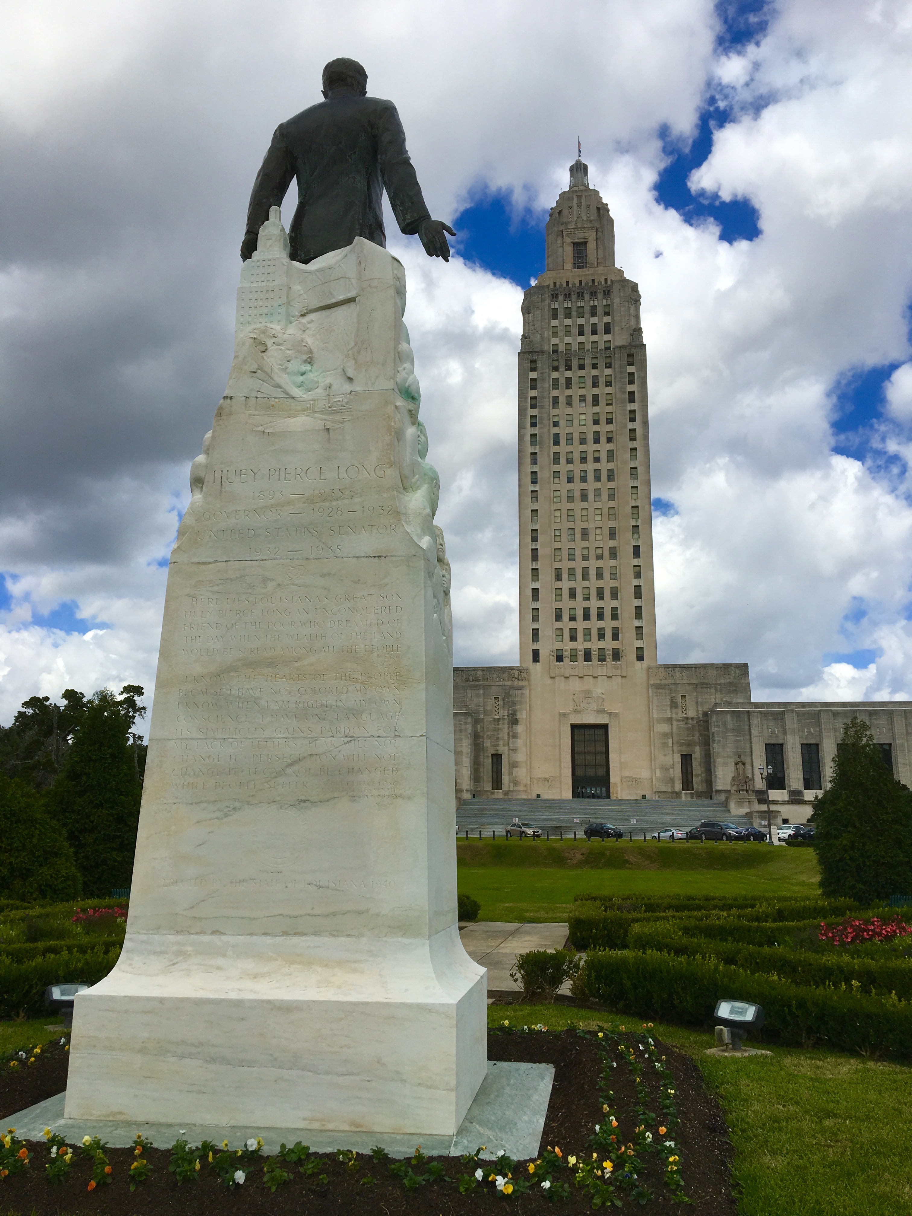 The grave site of former Louisiana Governor and Senator Huey Long on the grounds of the State Capitol Building in Baton Rouge, Louisiana.